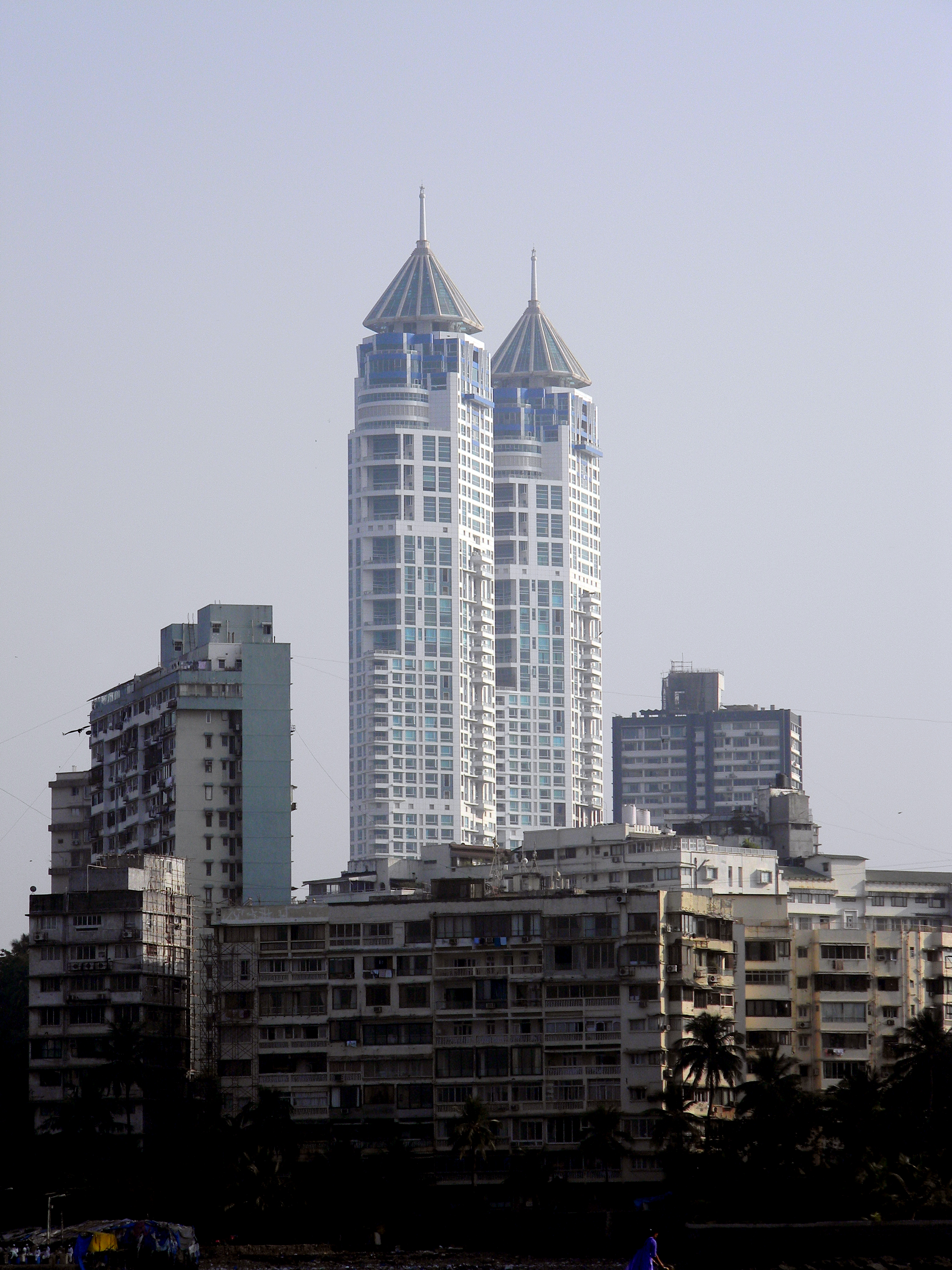 Mumbai's first international-standard skyscraper This media file is uploaded with Odia loves Wikipedia English |italiano |македонски |മലയാളം |ଓଡ଼ିଆ +/−